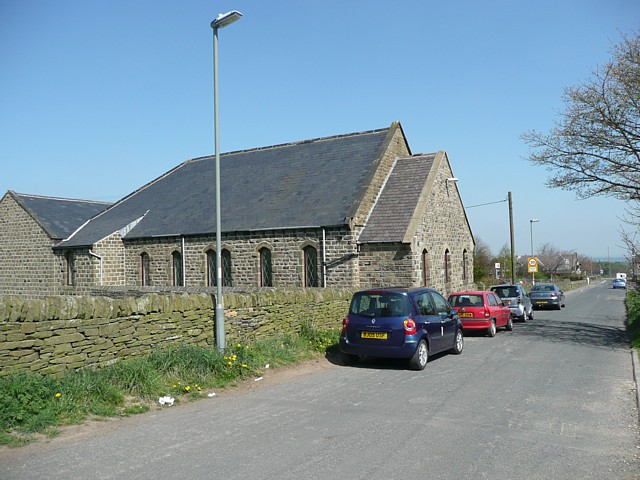 Methodist Chapel, Birds Edge Lane, Denby This was built as a Wesleyan Reform Chapel.